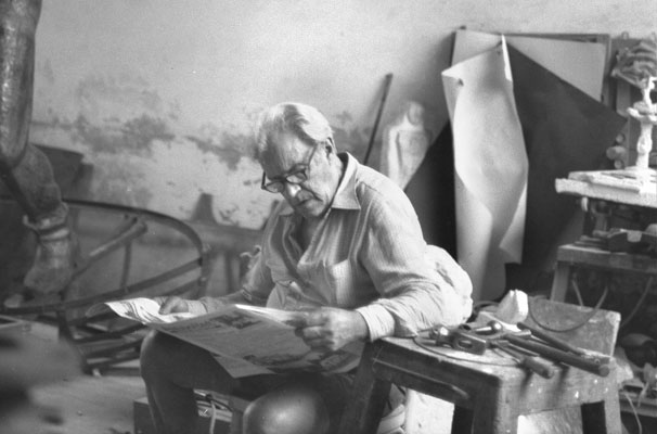 Memos Makris, Αγαμέμνων Μακρής, Μέμος Μακρής, Makrisz Agamemnon